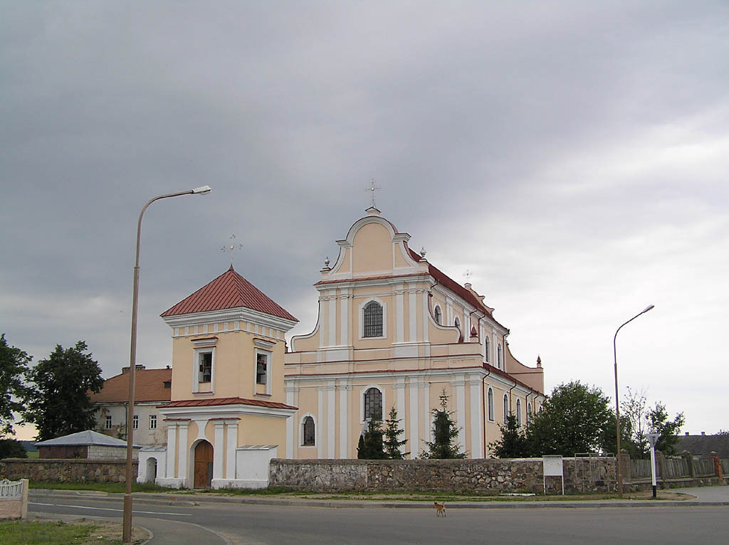 Halshany Church (1618, rebuilt 1770s)